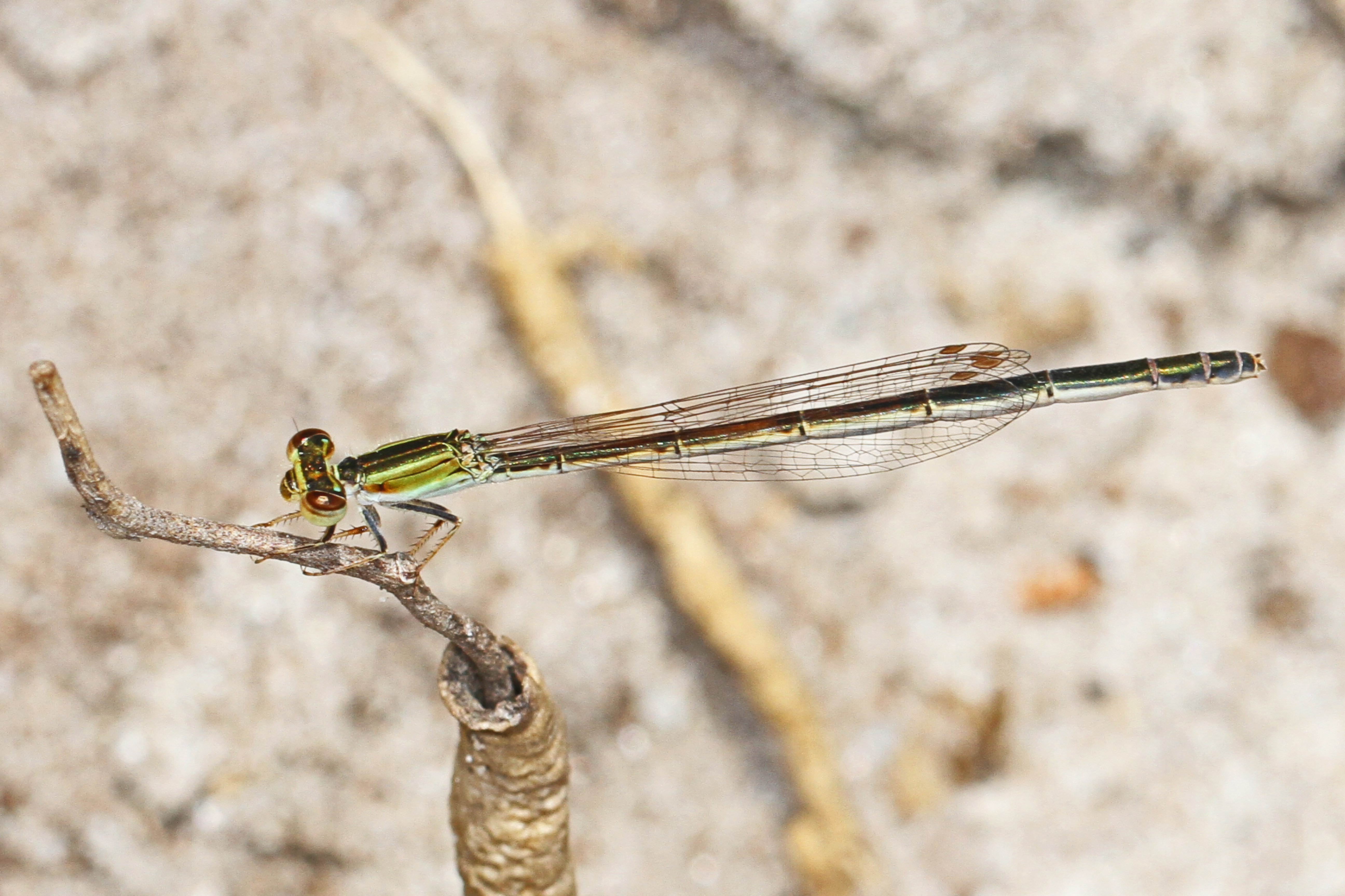 Furtive Forktail - Ischnura prognata, Salt Creek Road, Lower Suwannee National Wildlife Refuge, Chiefland, Florida. I was vacillating between Furtive Forktail and olive-form Rambur's Forktail, but I think this is the Furtive Forktail based on black on segment 1 and the first half of segment 2. Please correct me if you think I mis-identified this.